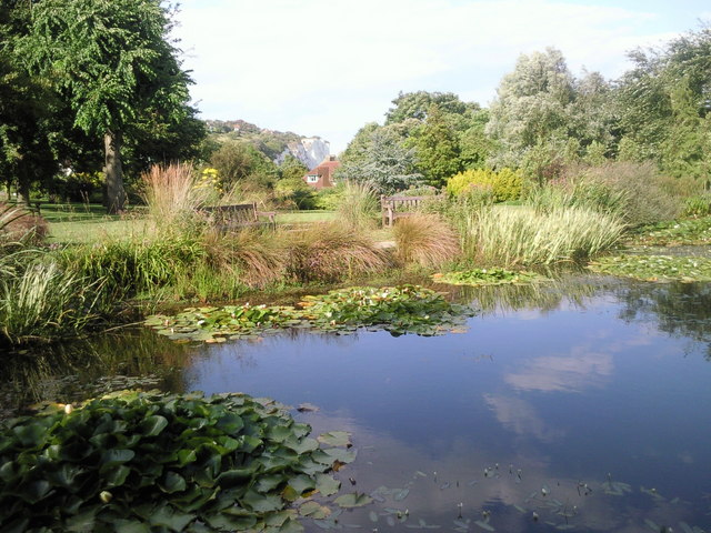 The Pines Garden, St Margaret's at Cliffe The attractive Pines Garden looking across the main pond to the chalk cliffs at the Dover Patrol Memorial beyond St Margaret's at Cliffe village.